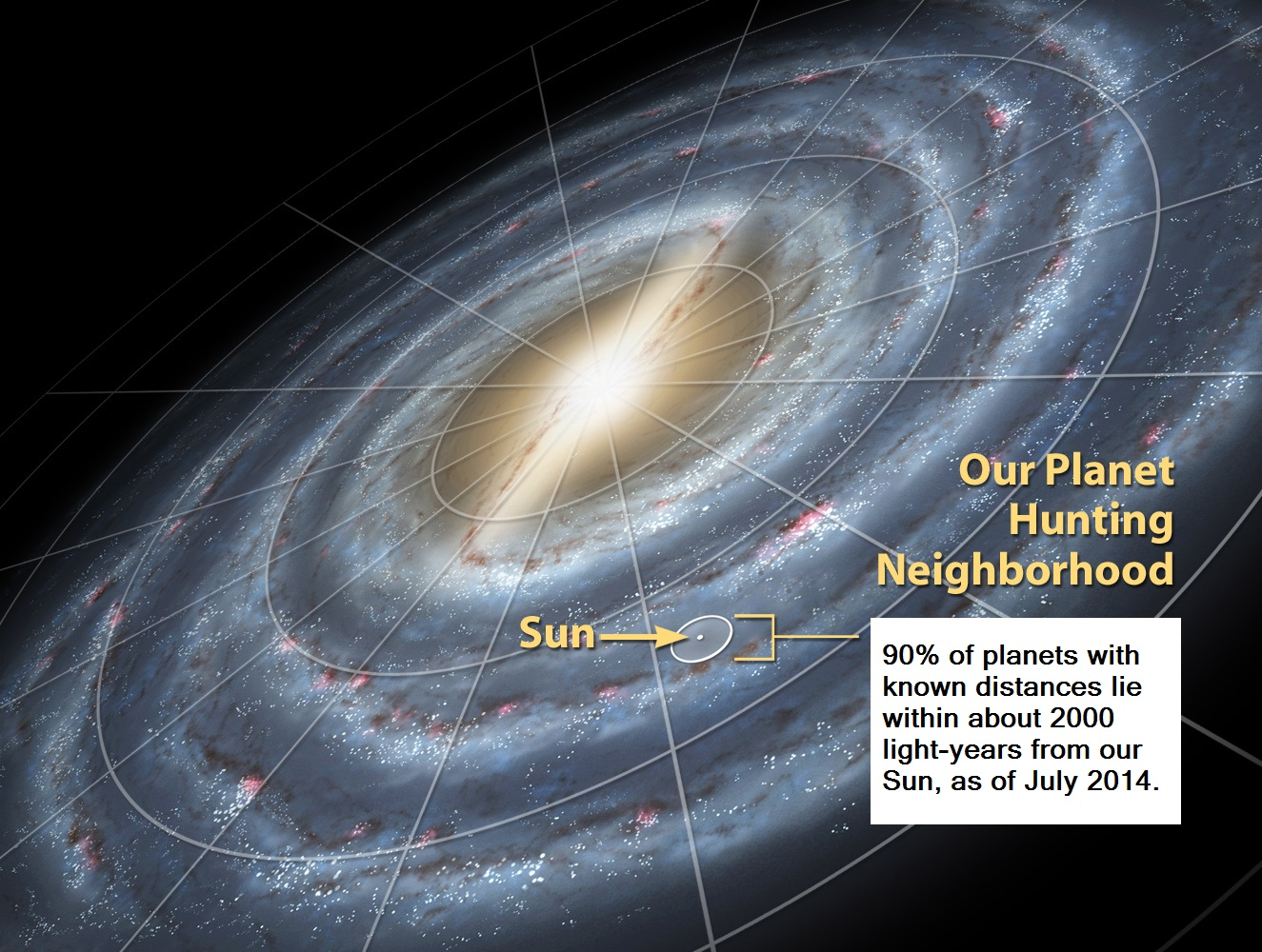 Image originally from PlanetQuest. Modified with updated stats. 90% of planets with known distances lie within about 2000 light-years from our Sun, as of July 2014. Based on planets listed with distances at The Extrasolar Planets Encyclopaedia on 10 July 2014. 1 parsec = 3.26156 ly